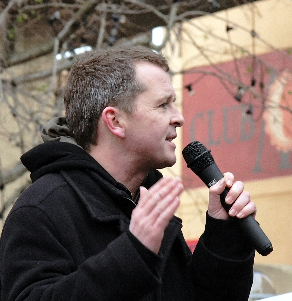 Richard Boyd Barrett in a demonstration in Dublin against Israel's military operation in Gaza